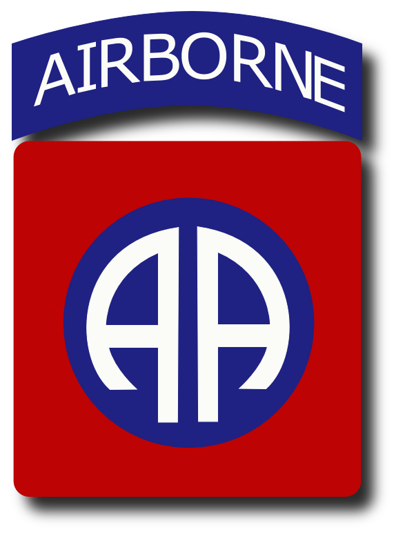 82nd Armored Division Shoulder Sleeve Insignia